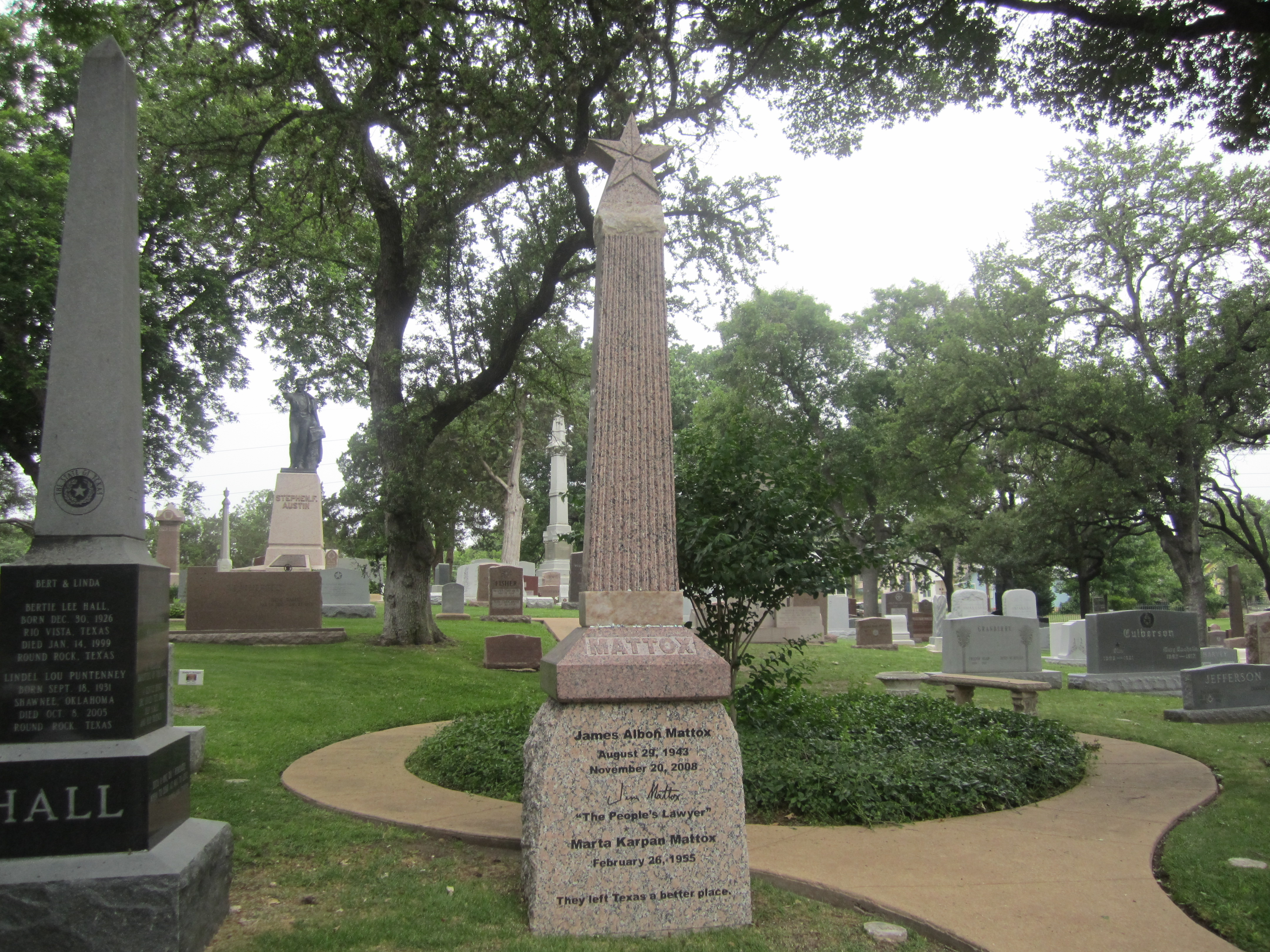 I took photo of Jim Mattox monument at TX State Cemetery in Austin with Canon camera.